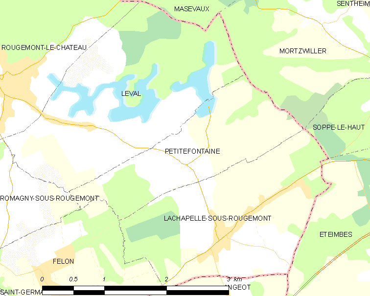 Map of French municipality Petitefontaine